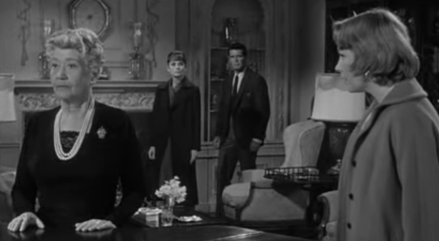 Original trailer for The Children's Hour (1961).